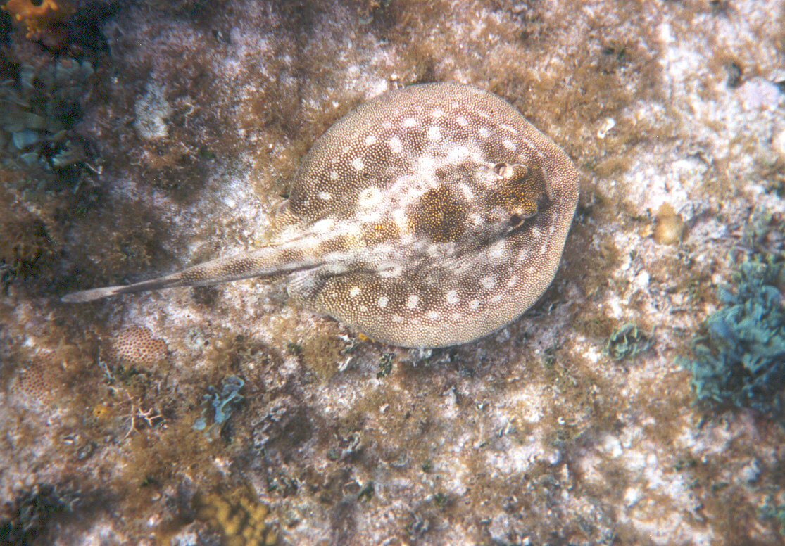 Yellow-spotted Stingray (Urobatis jamaicensis) Taken by Duncan Wright